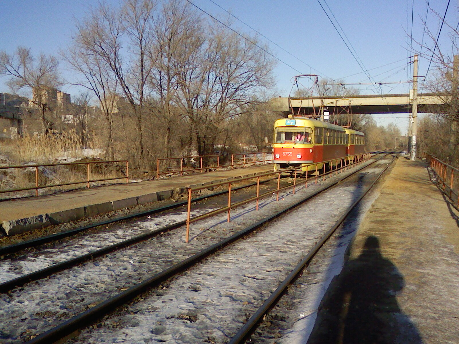 Vodootstoy (metrotram_station), Volgograd